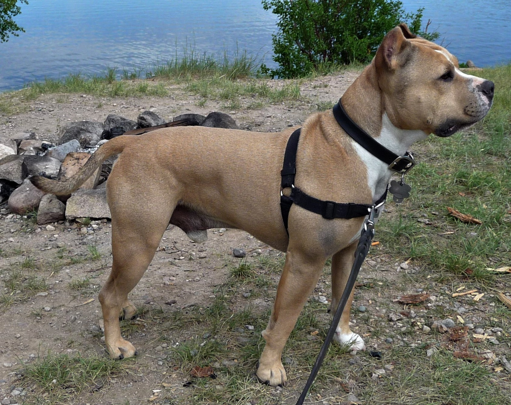 Mumford is an American Staffordshire Terrier (per DNA test) found as a stray in Virginia in 2012. At Ring Lake, Wyoming, USA